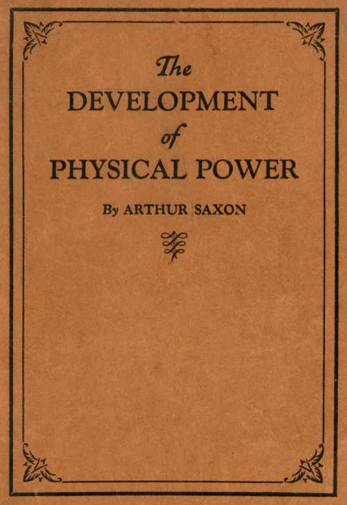 Cover for "The Development of Physical Power", published in 1905, written by Arthur Saxon.